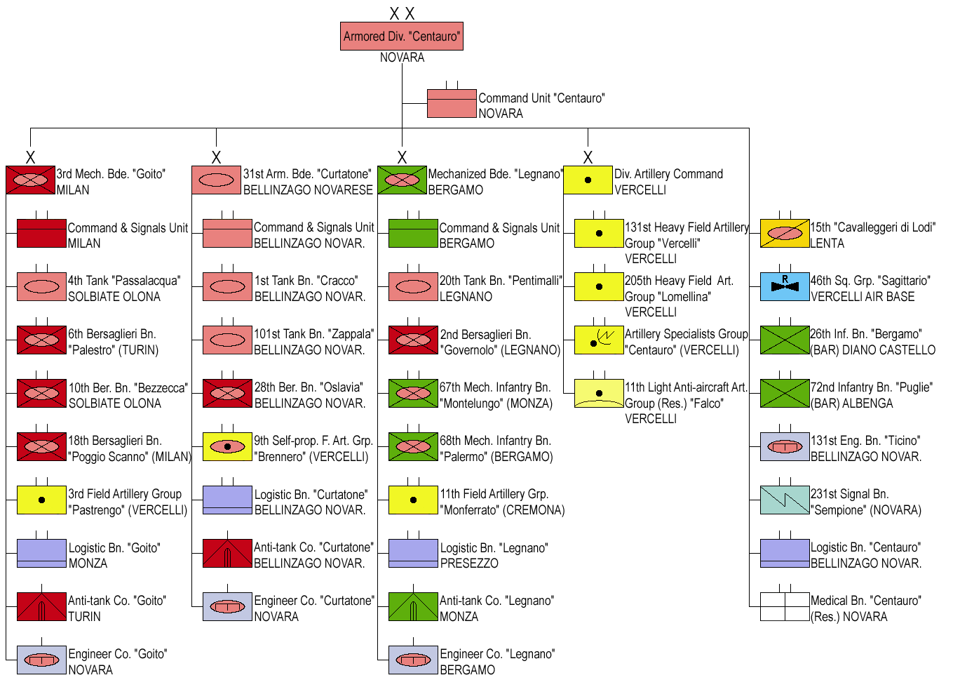 Structure of the Italian Army's Armored Division "Centauro" in 1977